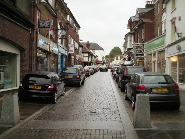 Leatherhead High Street